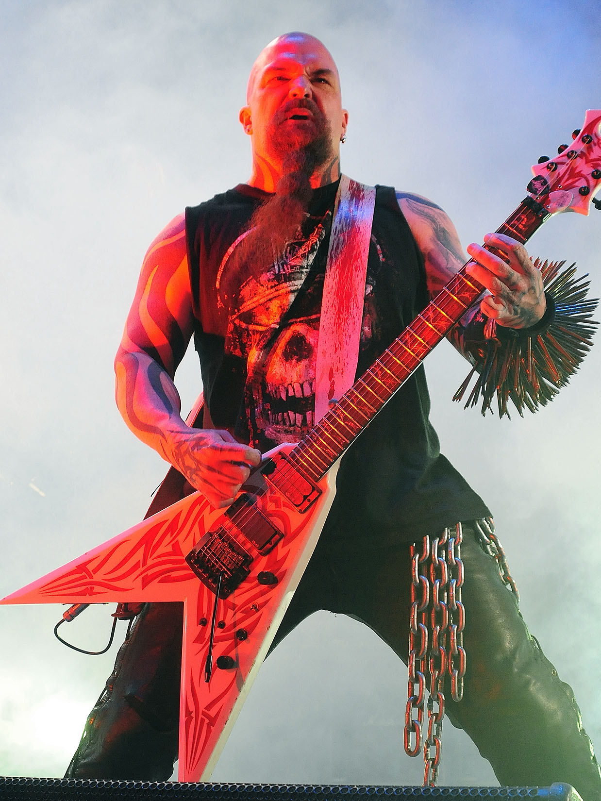 Kerry King In performance.